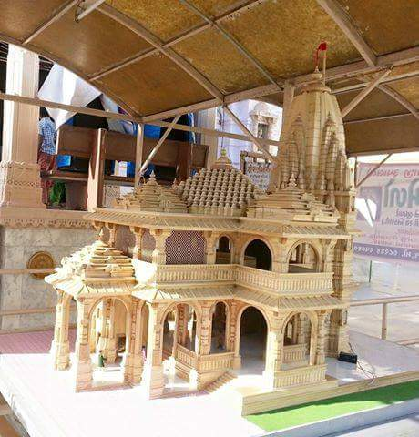 This Picture is new project of Renovation of Vardayini Mata Temple, Rupal